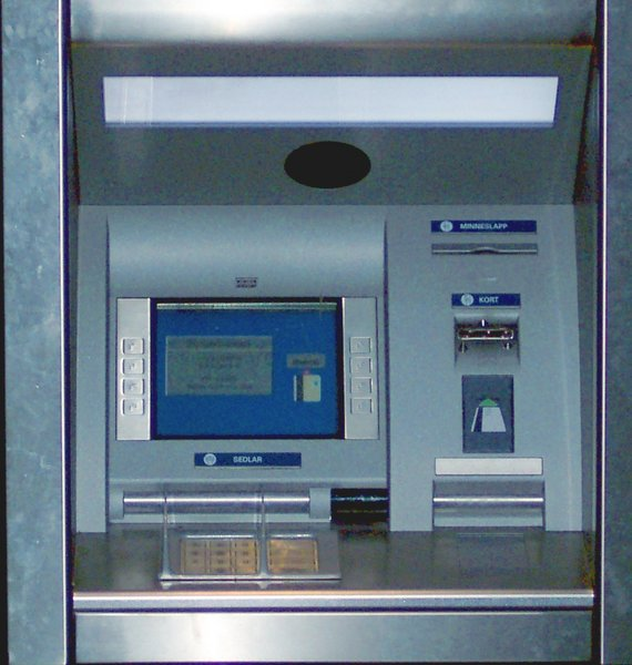 Wincor Nixdorf Procash 2150 ATM. Swedish Bankomat at Nils Ericson Teminalen in Göteborg in Sweden.